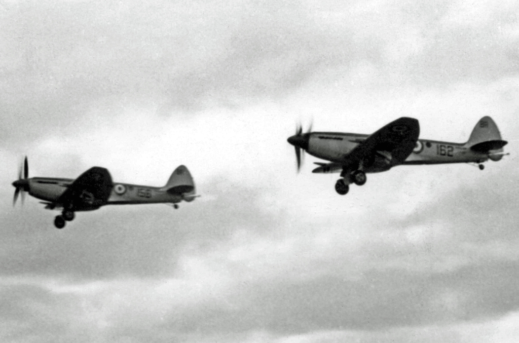 Two Supermarine Seafire F.47's of 1833 Squadron RNVR displaying at the Wolverhampton air show